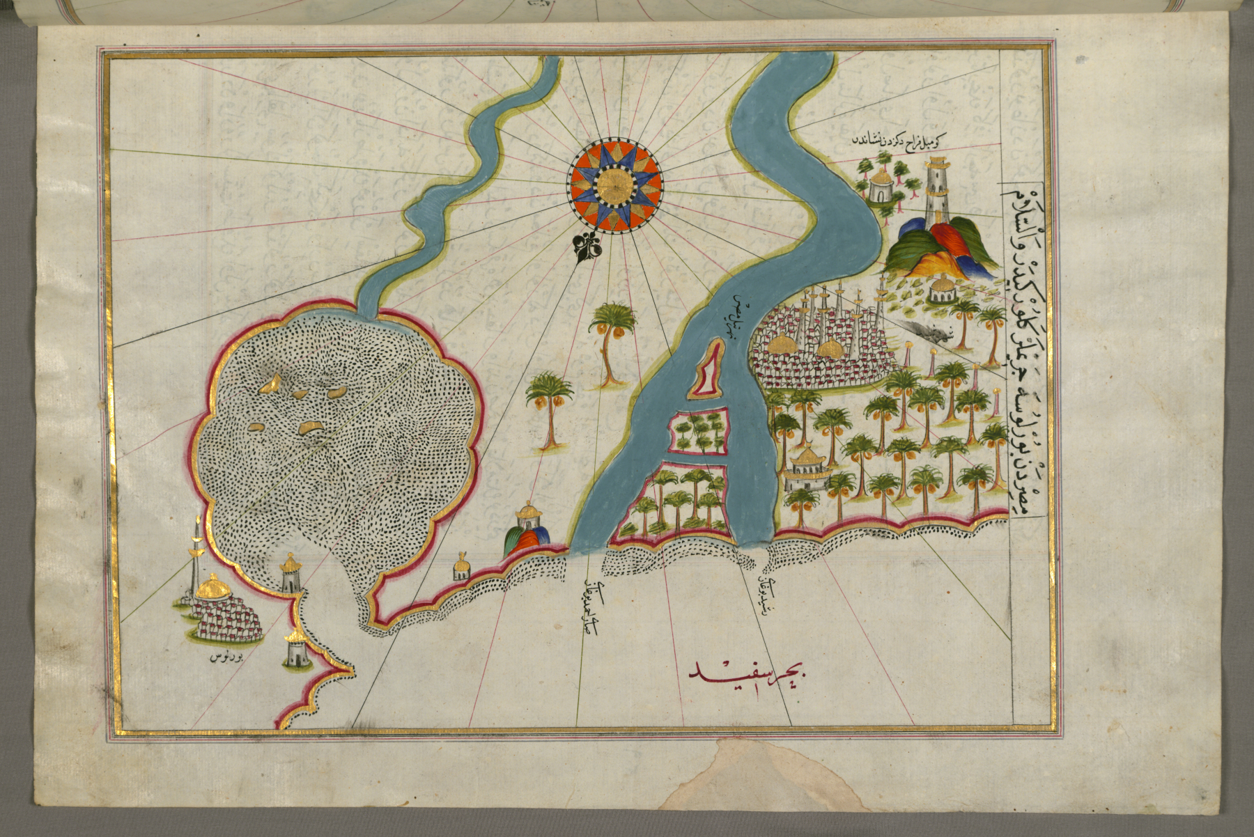 This folio from Walters manuscript W.658 contains a map of the river Nile estuary with the cities of Rashid (Rosetta) and Burullus on each side.